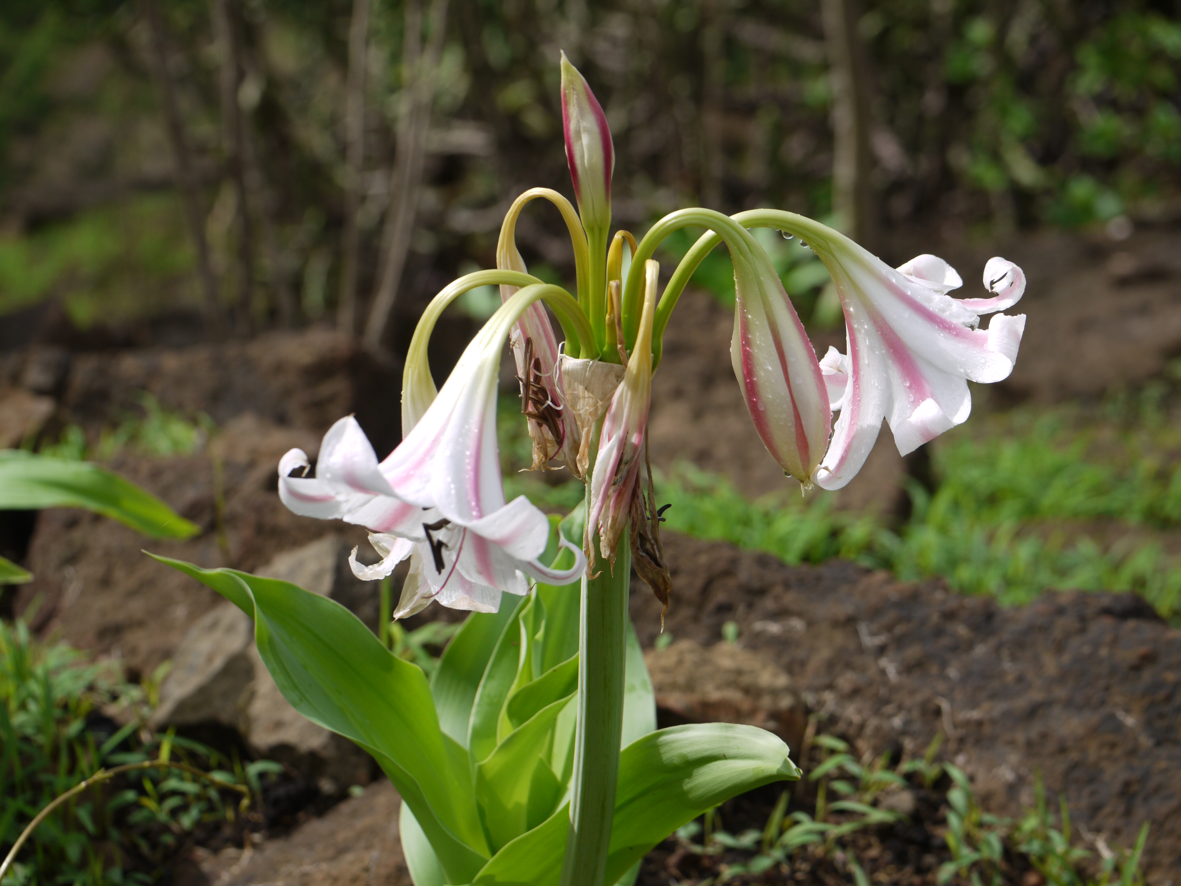 Amaryllidaceae (amaryllis family) » Crinum latifolium L. KRY-num or KREE-num -- from the Greek krinon, meaning lily ... Dave's Botanary lat-ee-FOH-lee-um or lat-ih-FOH-lee-um -- wide leaves ... Dave's Botanary commonly known as: pink-striped trumpet lily, wide-leaved crinum lily • Bengali: সুখদর্শন sukhadarshana • Konkani: गोल कांदो gol kando • Malayalam: ചുവന്ന പോളത്താളി sjovanna-pola-tali • Marathi: गडांबी कांदा gadabi kanda, गुलाबी कर्णफूल gulabi karnaphul • Sanskrit: चक्राङ्गी cakrangi, मधुपर्णिका madhuparnika, सुदर्शन sudarsana, वृषकर्णी vrsakarni • Tamil: விஷமூங்கில் visa-munkil Native to: s China, India, Laos, Myanmar, Sri Lanka, Thailand, Vietnam References: Flowers of India • eFlora • Wikipedia • ENVIS - FRLHT • DDSA